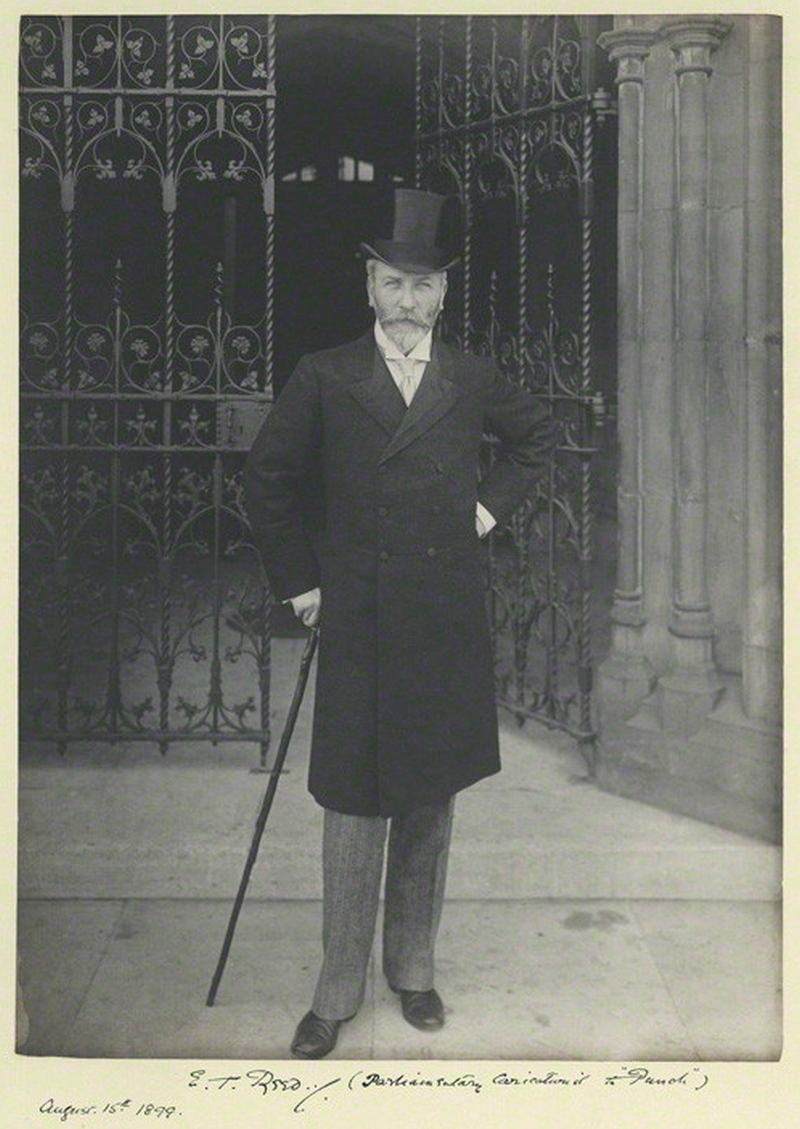 Cartoonist Edward Tennyson Reed, photo by Sir (John) Benjamin Stone.